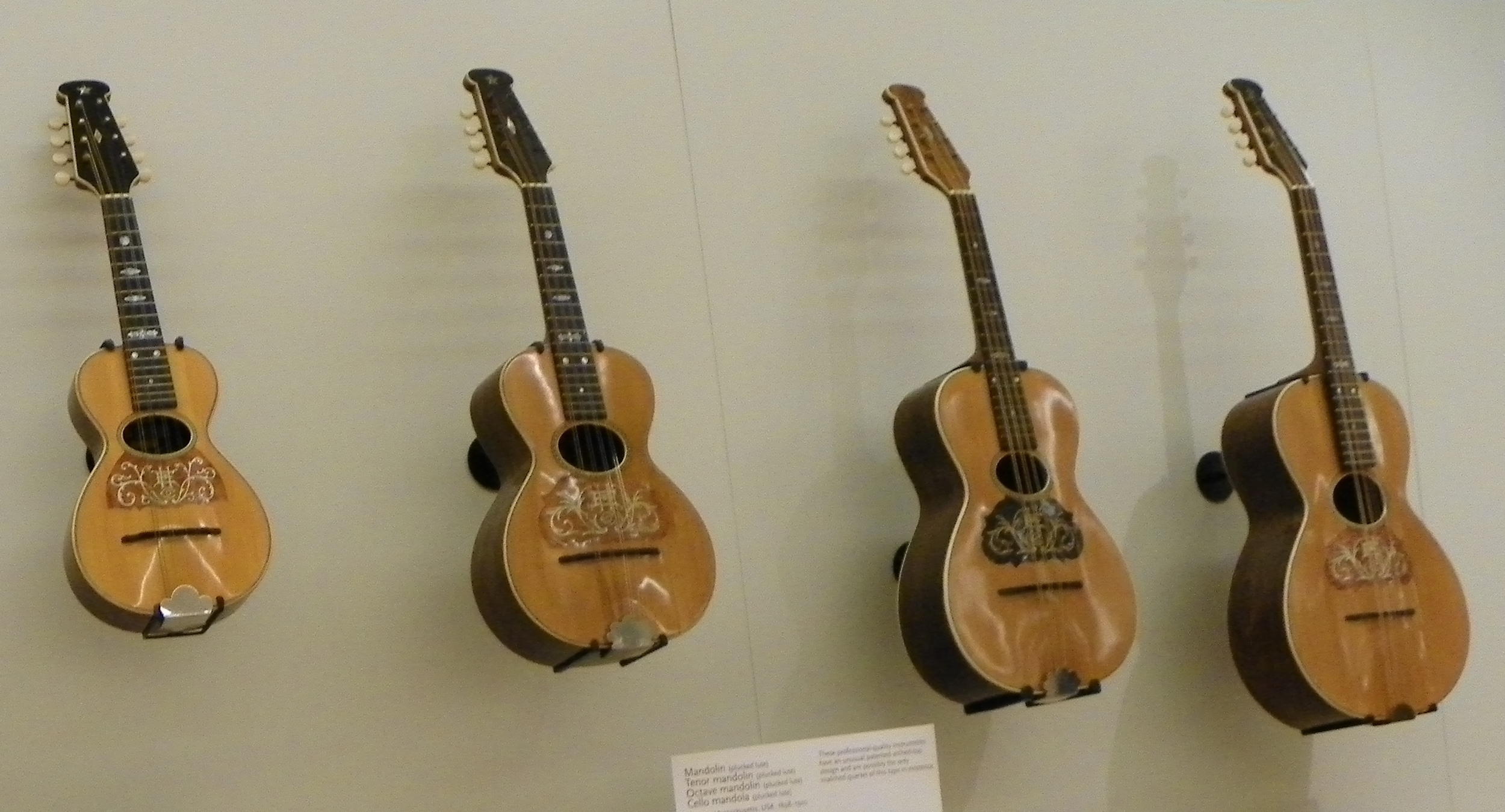 Photograph of musical instrument(s) taken at the Musical Instrument Museum (Phoenix) on 2011-04-26. descriptions Mandolin Tenor mandolin Octave mandolin Cello mandola (same range as mandocello)